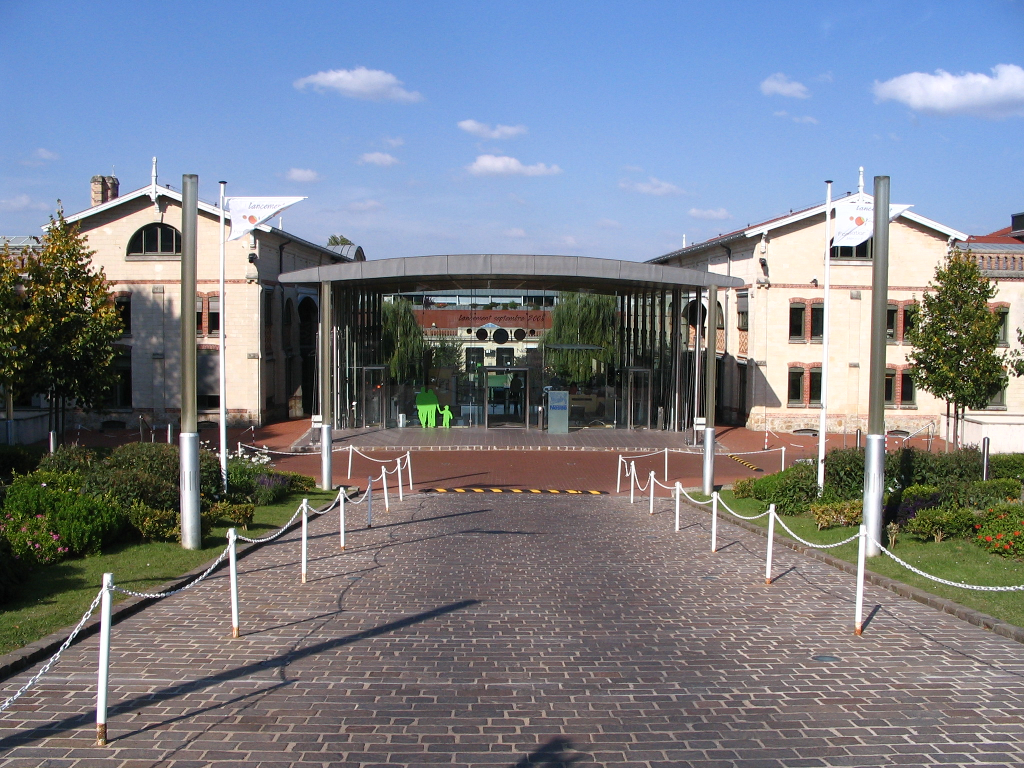 The former Menier chocolate factory in Noisiel, Seine-et-Marne, France, now the headquarters of Nestlé France.